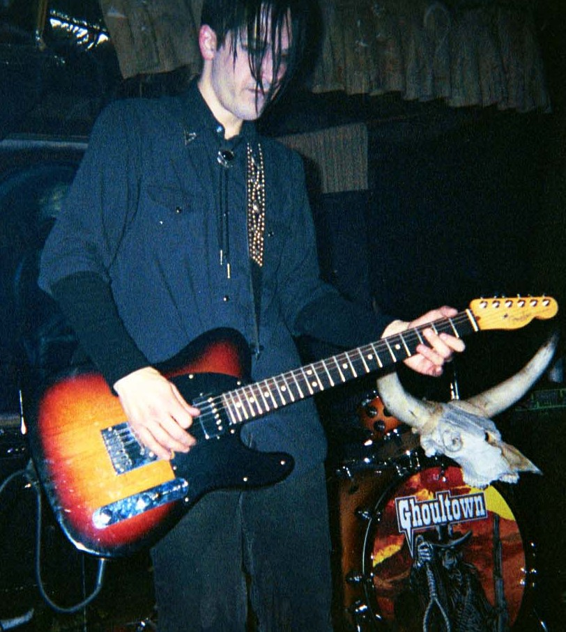 Jake from Ghoultown at The Wreck Room in Fort Worth, Texas 2002.